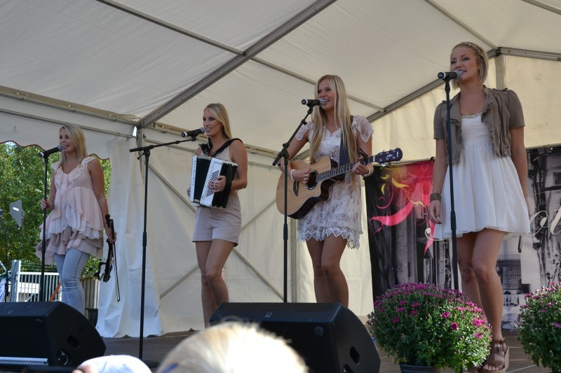 The band in concert